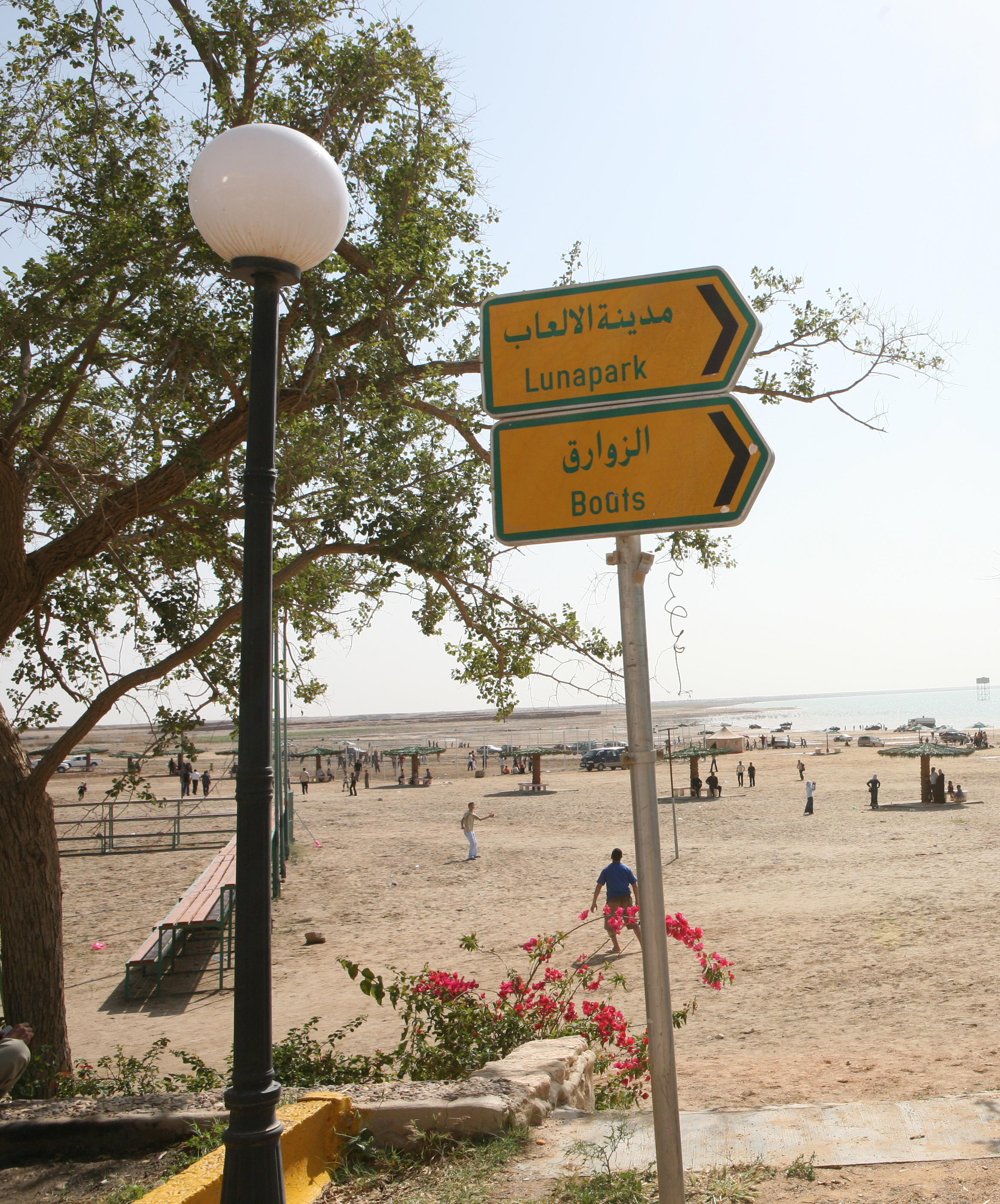 A sign on the boardwalk overlooking the crowd who came to vacation in Habbaniyah Tourist Village, Iraq, April 9, 2009. Once a popular vacationing area in the 1970’s and 1980’s, it quickly lost its appeal as it became a refugee camp for Iraqis fleeing the sectarian violence in Baghdad and Fallujah after the start of Operation Iraqi Freedom in 2003. (U.S. Marine Corps photograph by 2nd Lt. Michele Perez)